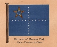 Minister of marines flag (Brazil), vintage.